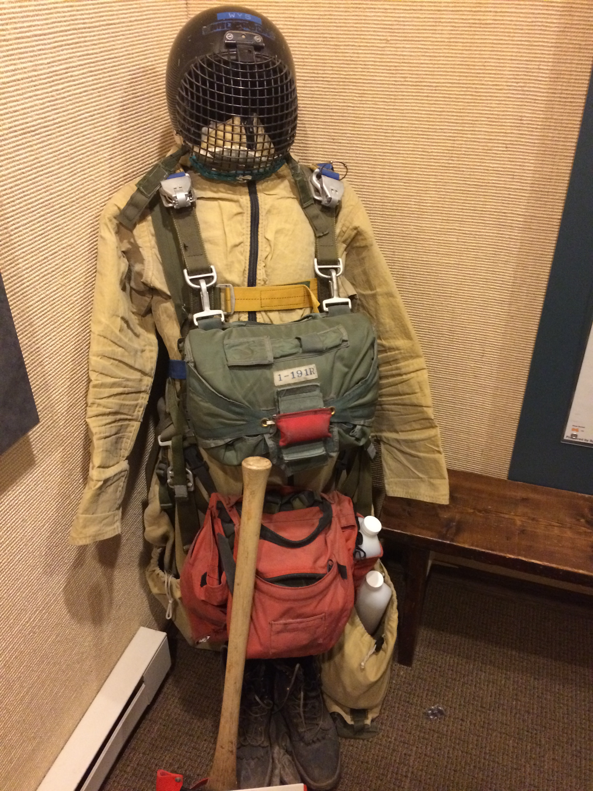 This smoke jumper equipment is on display in West Yellowstone, Montana.